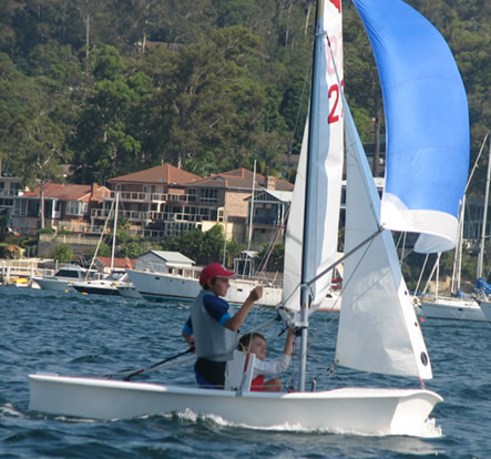 Manly Junior, Sailing Dinghy, children water sports Author/Photographer: Kingsley Forbes-Smith Taken on Pittwater, Sydney, 11th march 2006